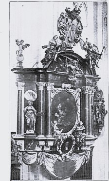 Epitaph for Konrad von Dorne (+ 1691) in the MArienkirche Lübeck, destroyed 1942